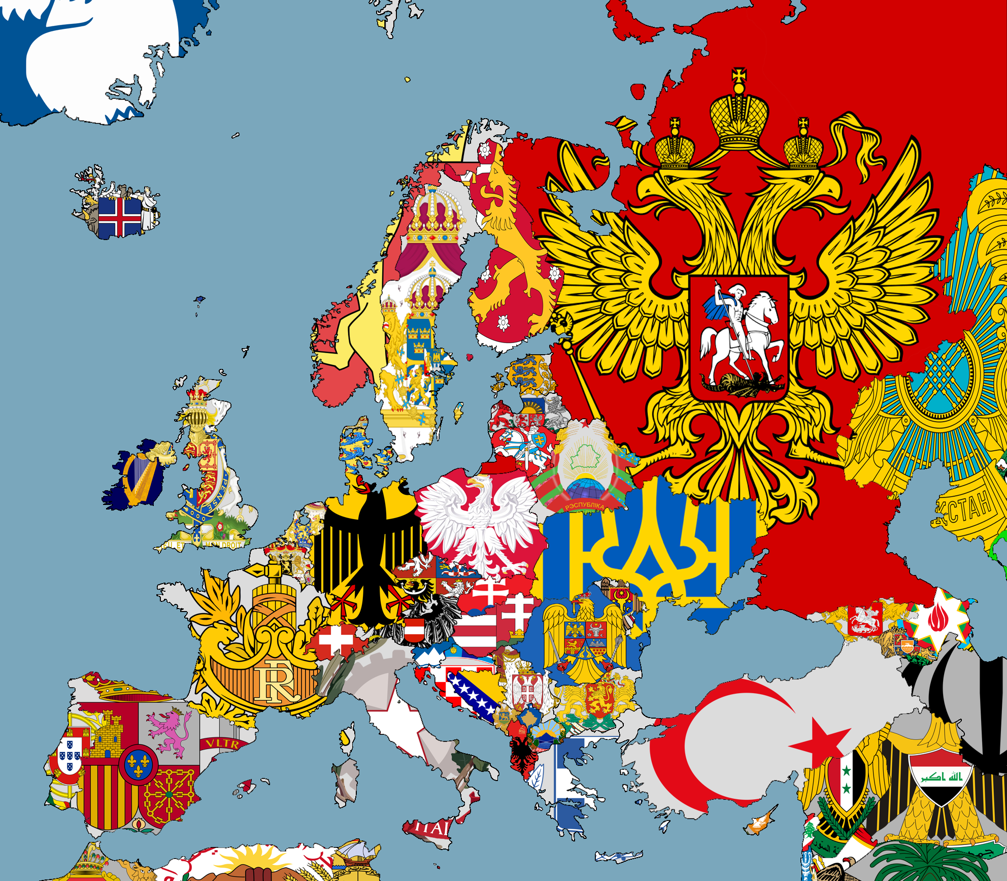 The map, depicting every single European state with it own coat of arms upon its territory